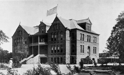 One of the original buildings on the campus of Arizona State University in Tempe, in 1890. This building first served as classroom and administrative office space.